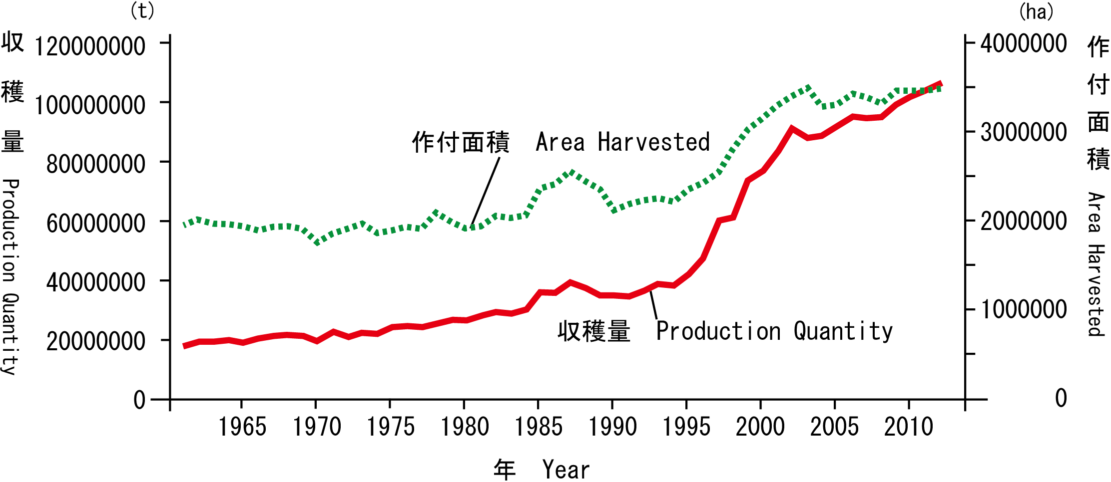 These graphs show production quantity and area harvested of watermelons in the world from 1961 to 2012. Data source is FAOSTAT.